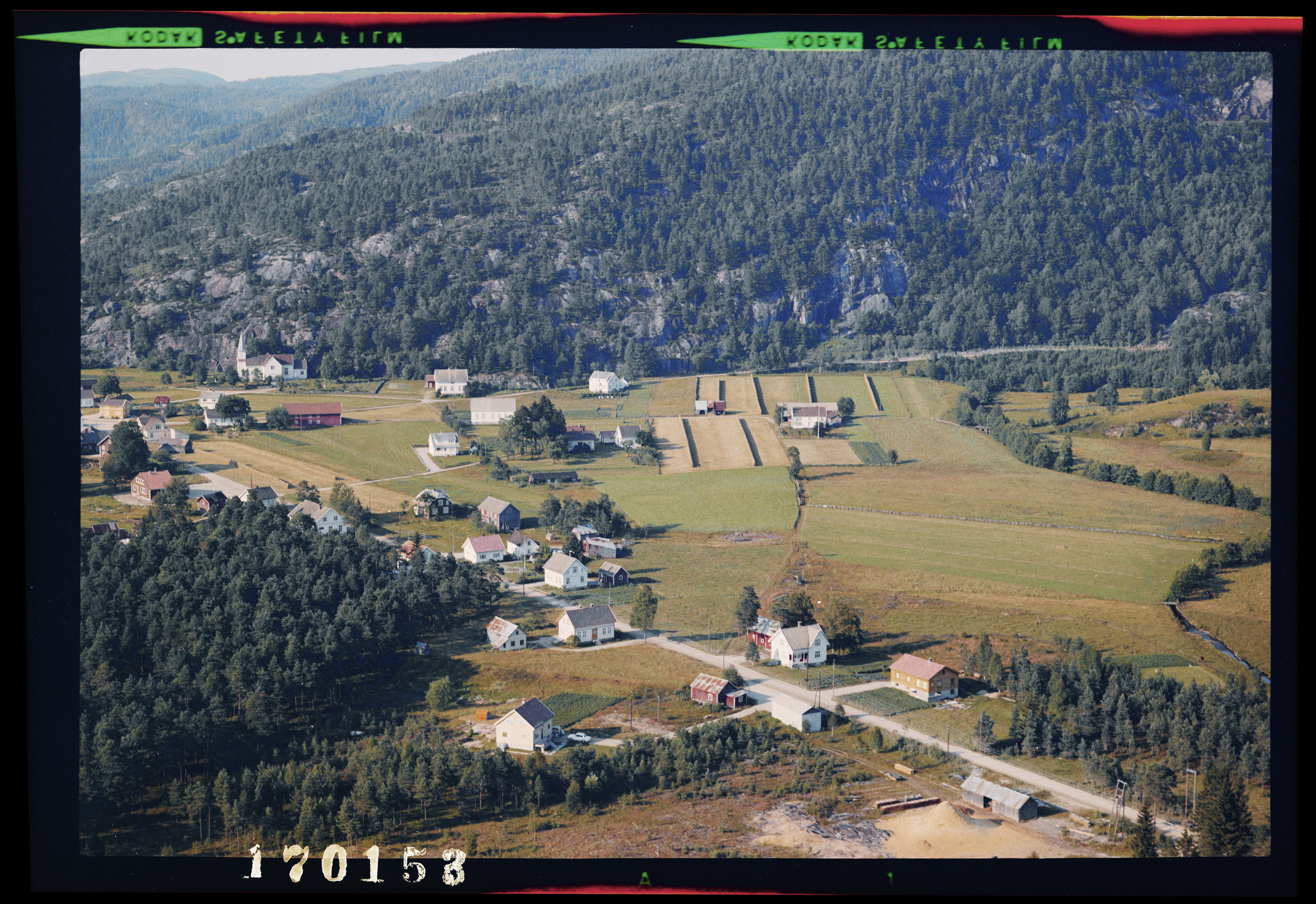 Tittel / Title: Konsmo i Audnedal kommune Beskrivelse / Description: Kommunesenteret Konsmo i Audnedal kommune i 1966. Bakerst i bildet Konsmo kirke fra 1802. Til høyre for den røde låven foran kirken står i dag Konsmo bedehus. Dato / Date: 1966 Sted / Place: Audnedal kommune i Vest-Agder Fotograf / Photographer: Fotograf ukjent Bildesignatur / Image Number: Digital kopi av original / Digital copy of original: Fargenegativ, acetat-base, 5,5 x 8,3 cm. Eier / Owner Institution: Nasjonalbiblioteket / National Library of Norway Lenke / Link: For høyoppløst versjon høyreklikk på bildet og velg "original".